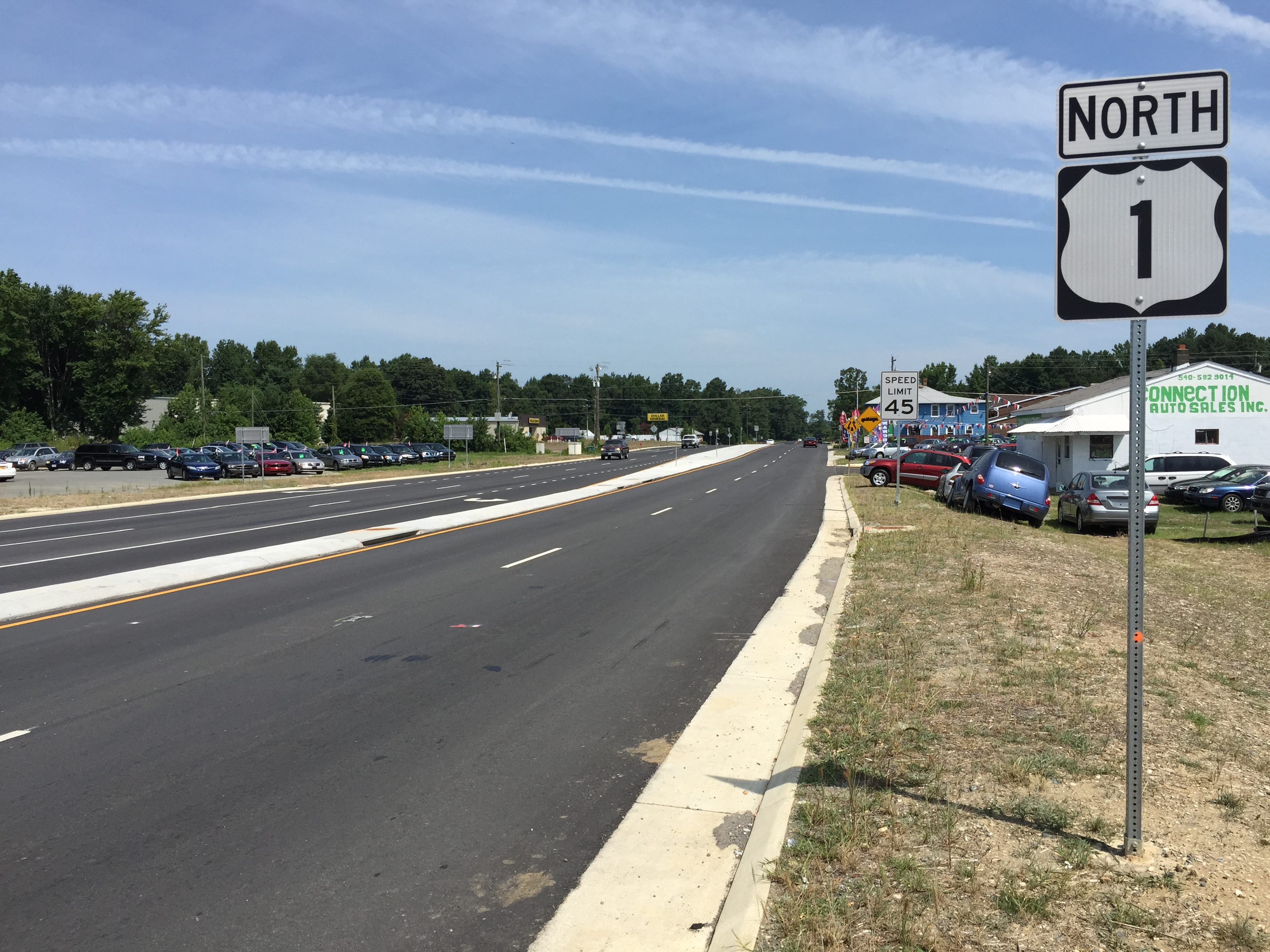 View north along U.S. Route 1 (Jefferson Davis Highway) just north of Mudd Tavern Road in Thornburg, Spotsylvania County, Virginia